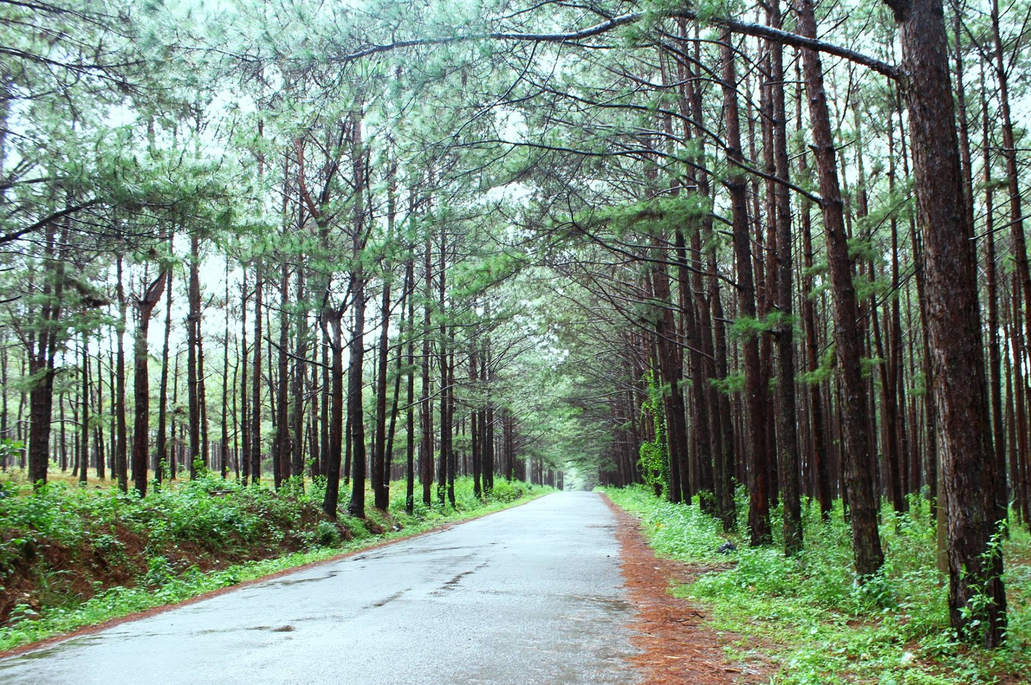 A road in a pine forest in Don Duong, Lam Dong, VietnamTiếng Việt: Con đường trong rừng thông Châu Sơn, thuộc huyện Đơn Dương, tỉnh lâm đồng, Việt Nam. Hình chụp trong một cơn mưa nhẹ.